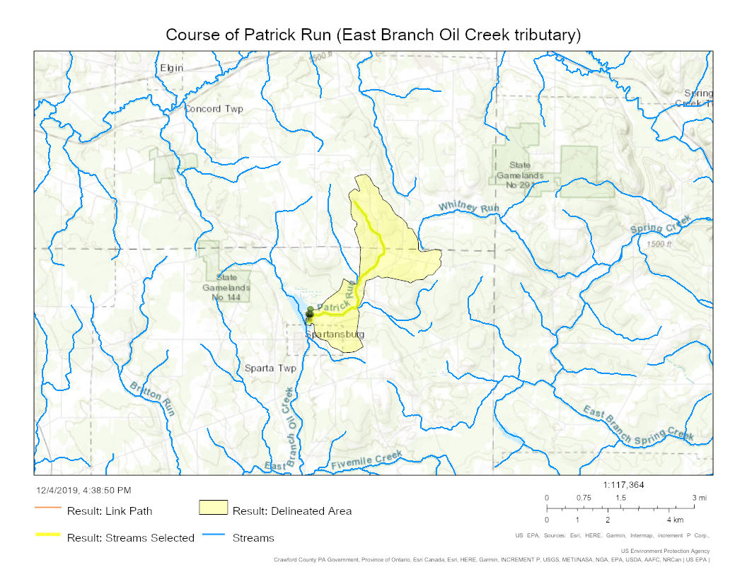 Map of the course of Patrick Run (East Branch Oil Creek tributary) in Crawford and Erie Counties, Pennsylvania